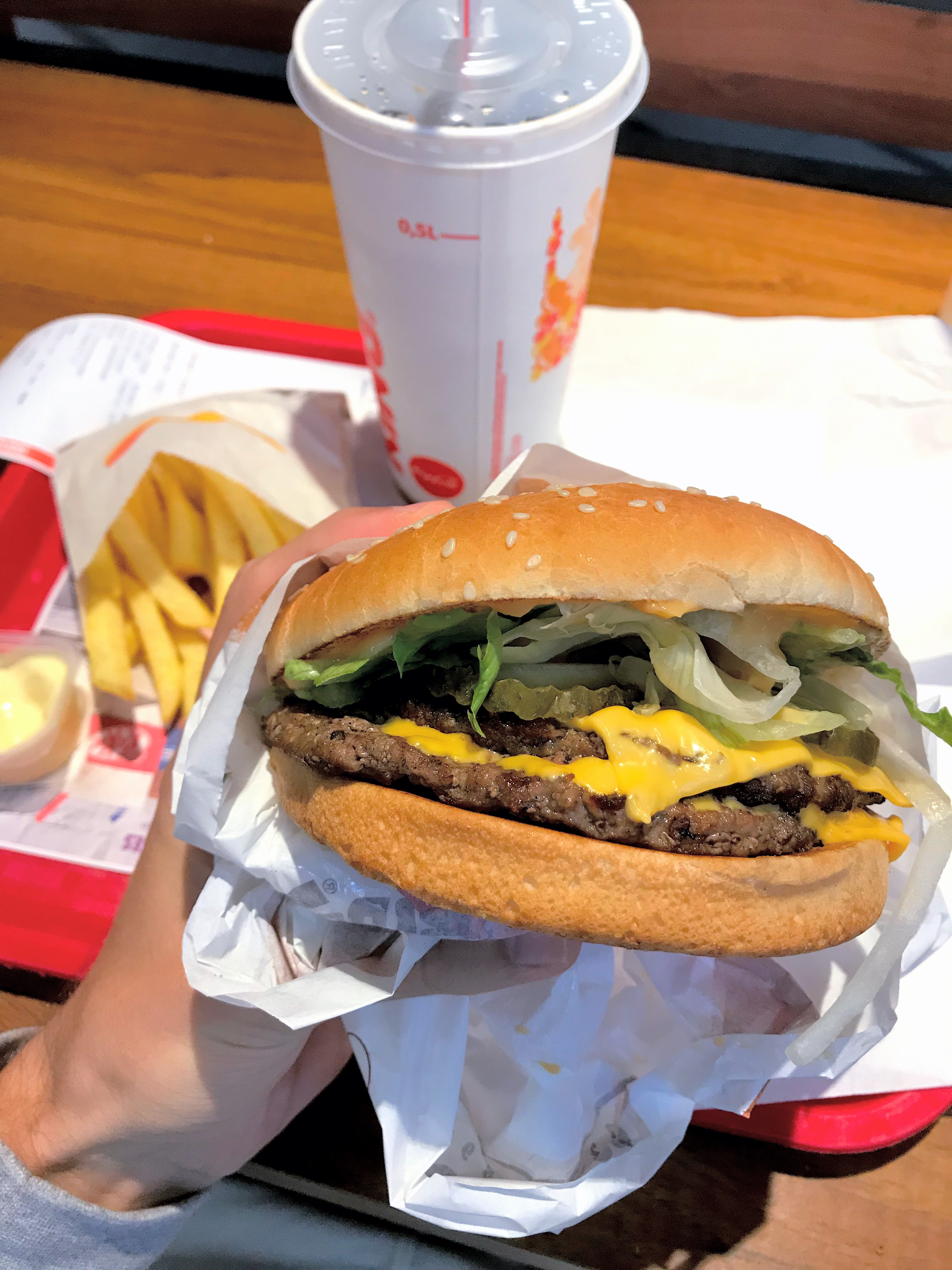 Burger King Big King XXL Menu